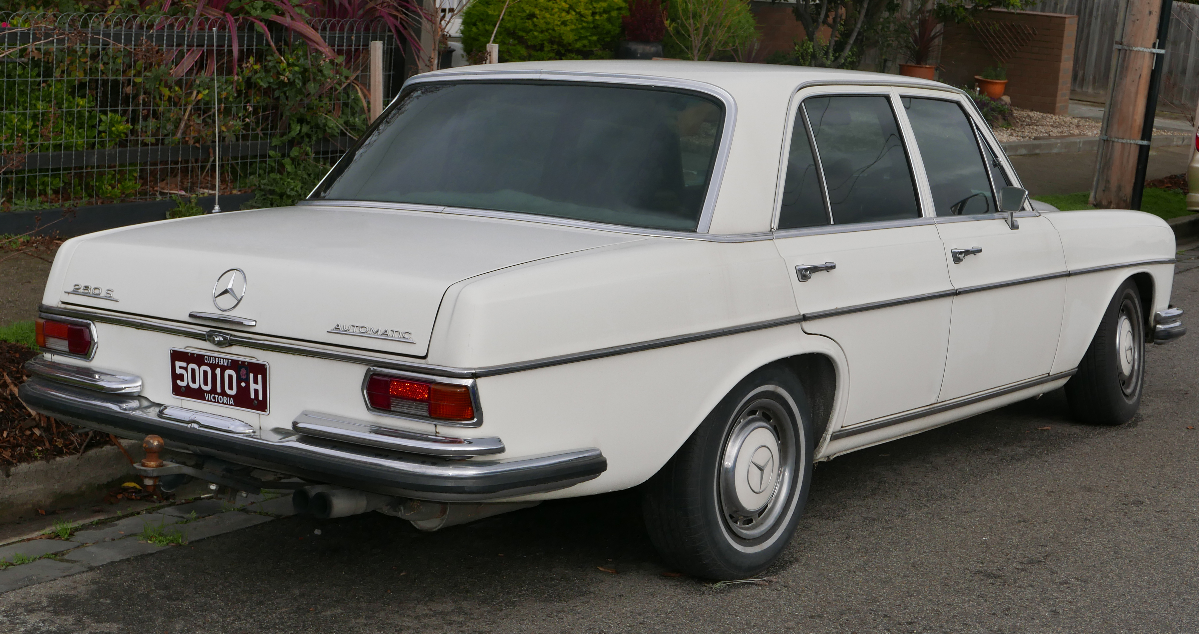 1969–1971 Mercedes-Benz 280 S (W 108) sedan. Photographed in Thornbury, Victoria, Australia.